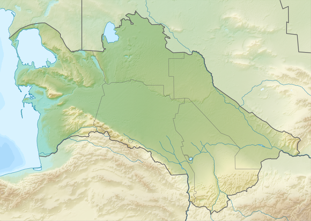 Relief map of Turkmenistan Equirectangular projection, N/S stretching 130 %. Geographic limits of the map: N: 43.2° N S: 34.9° N W: 52.0° E E: 67.2° E